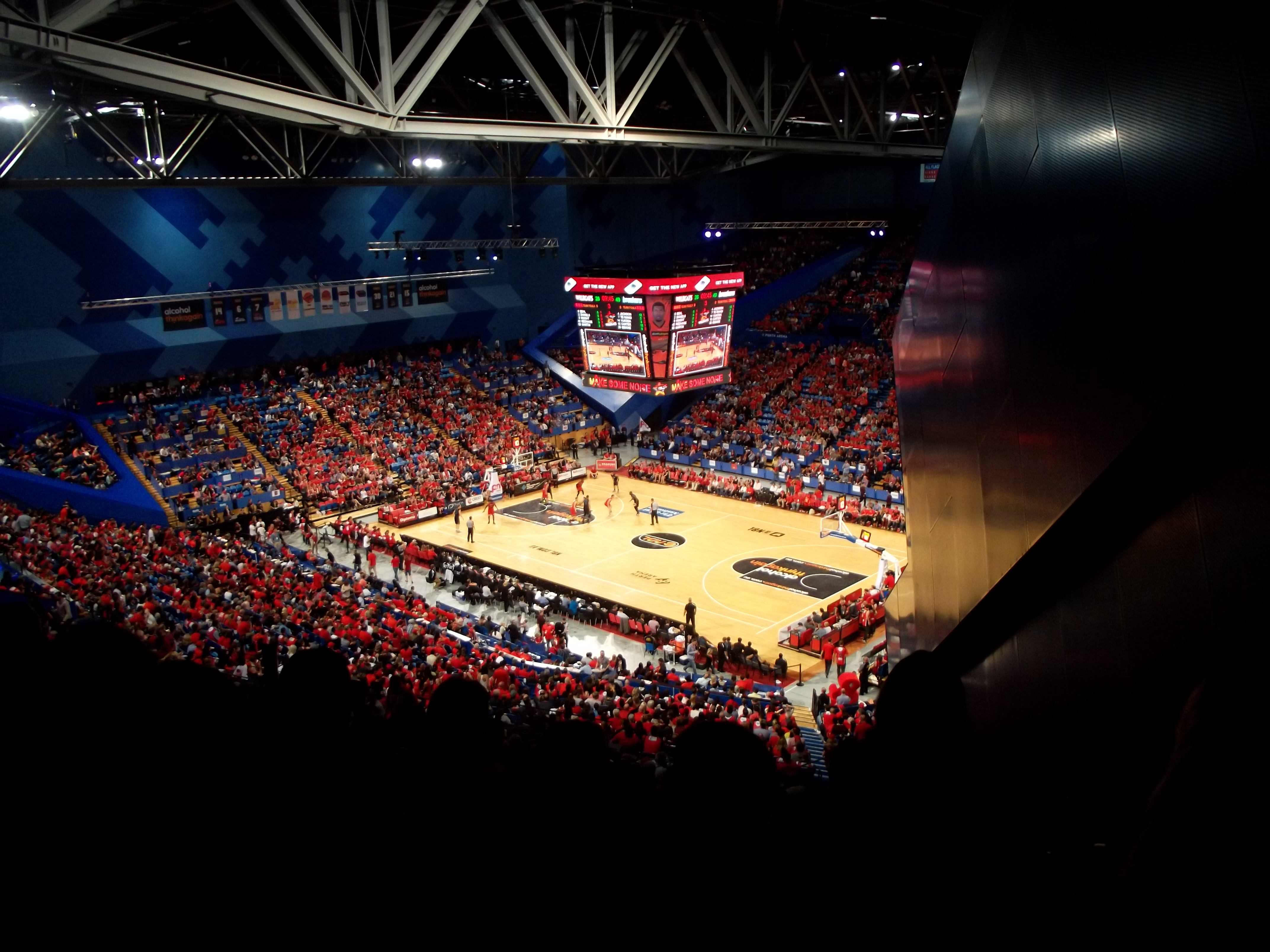 Perth Arena, Perth, Western Australia; Perth Wildcats vs New Zealand Breakers, 2014/15 NBL season opener